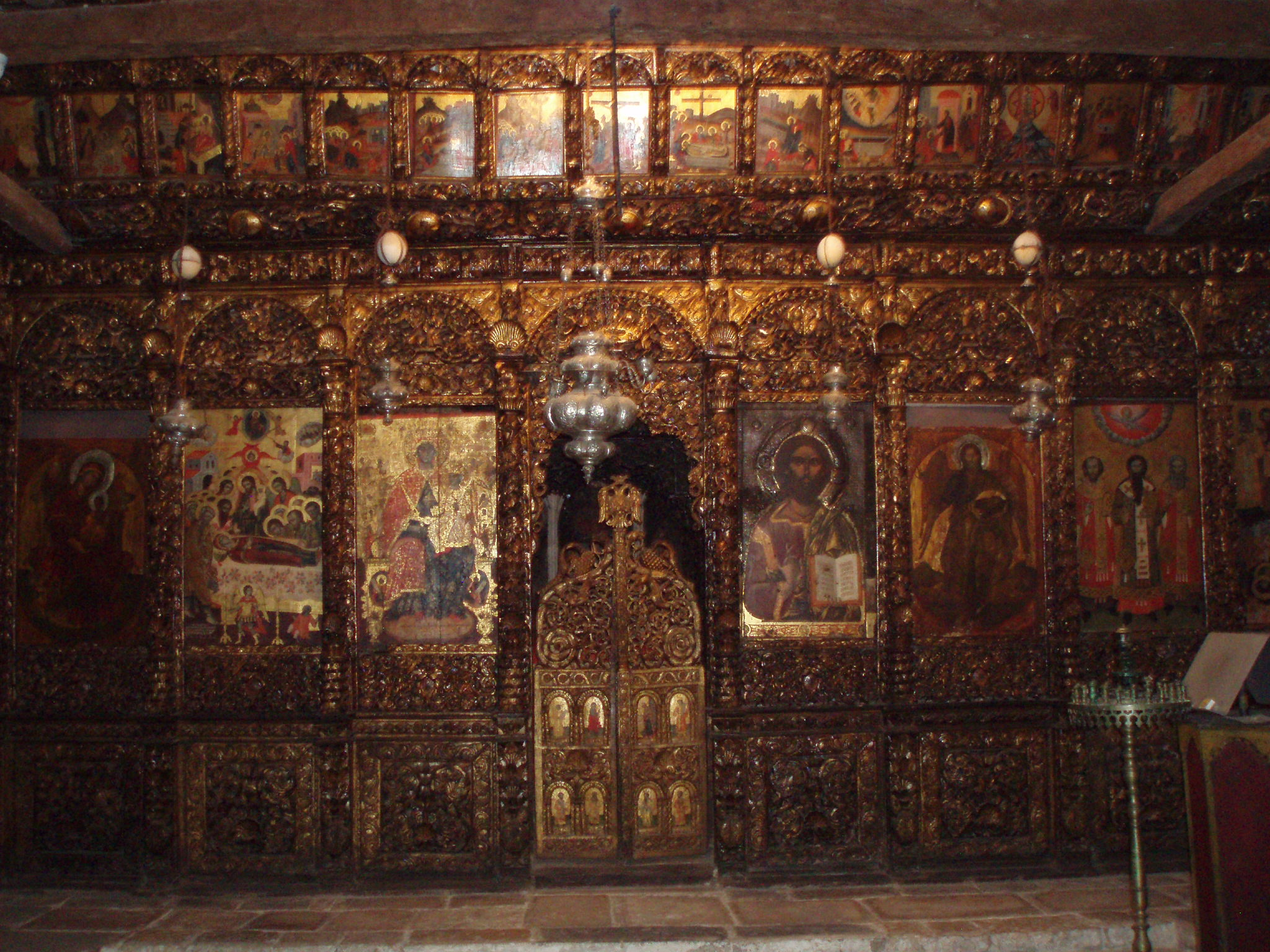 Icons in an Orthodox church in Berati, Albania